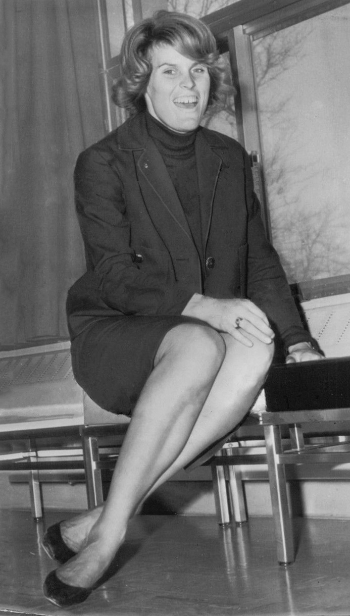 1963 Olympic Athlete Jutta Heine Press Photo